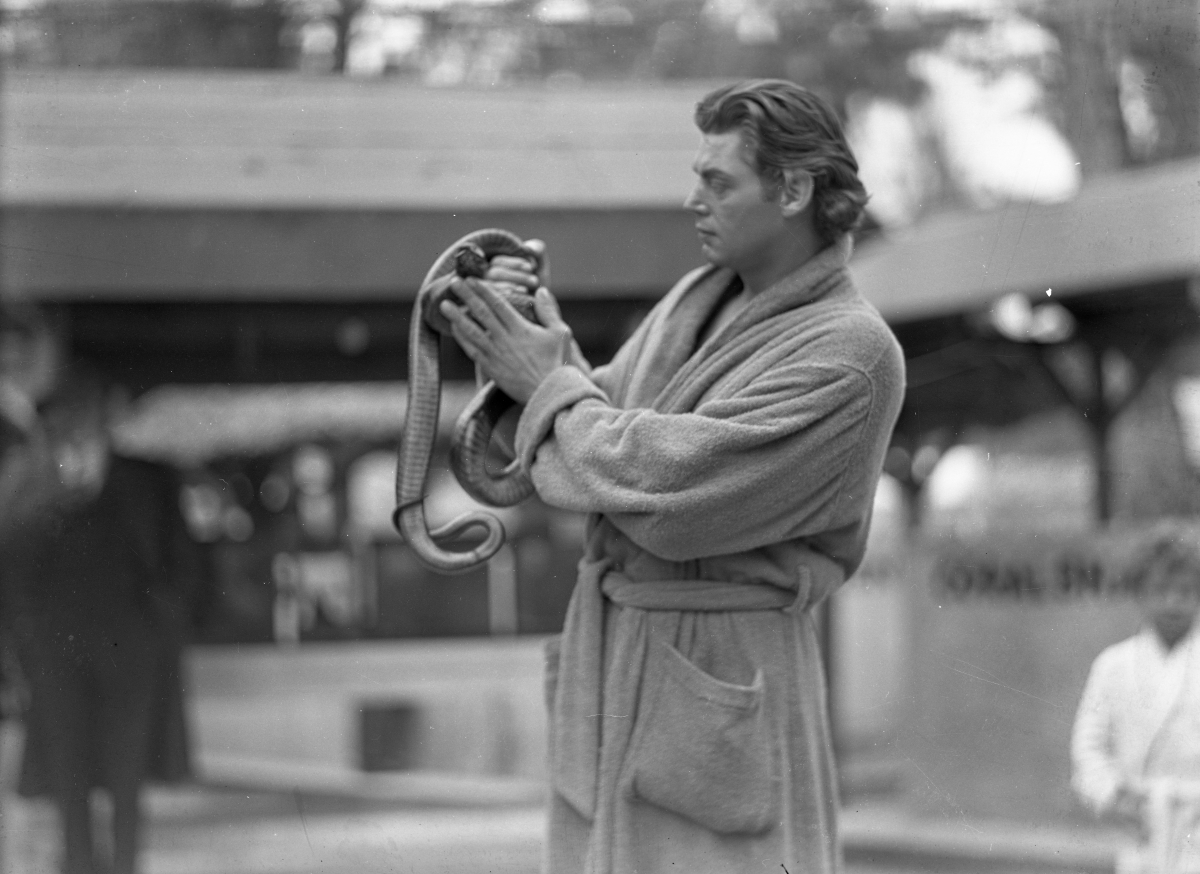 Johnny Weissmuller holding a snake at Ross Allen's Reptile Institute during filming of "Tarzan Finds a Son!" at Silver Springs.